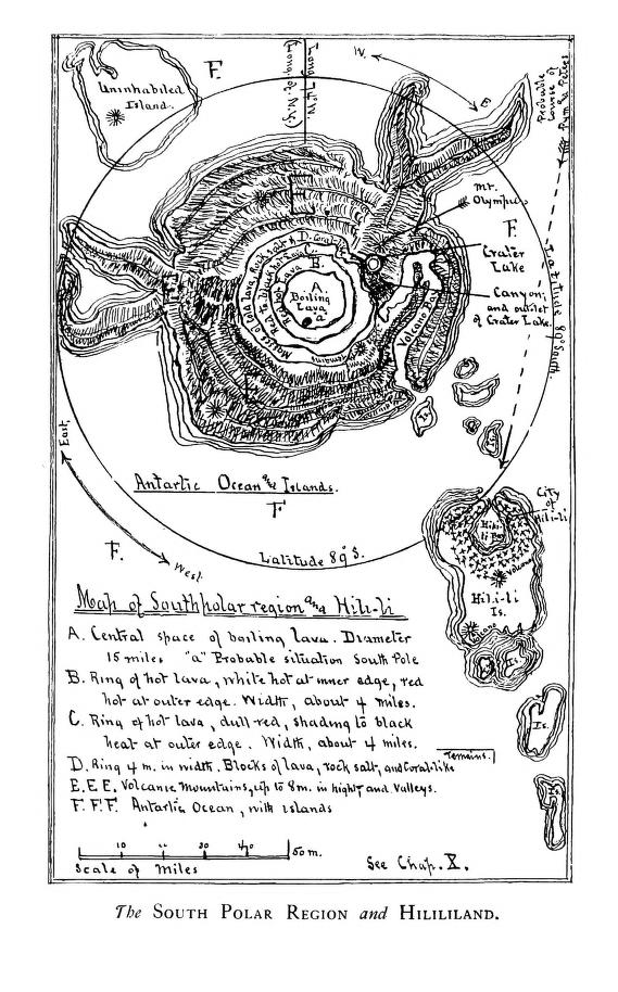 Map of the South Pole from A Strange Discovery by Charles Romyn Dake